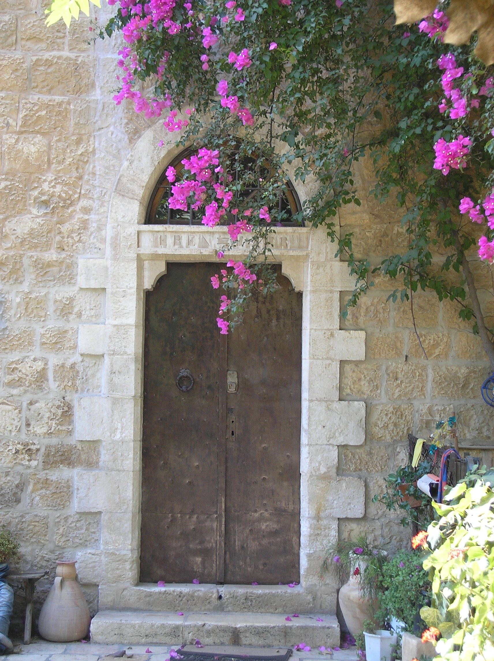 Jerusalem, 6 Emek Refaim Street, Matthaus Frank House. Picture taken by Deror avi on 18th August 2006.